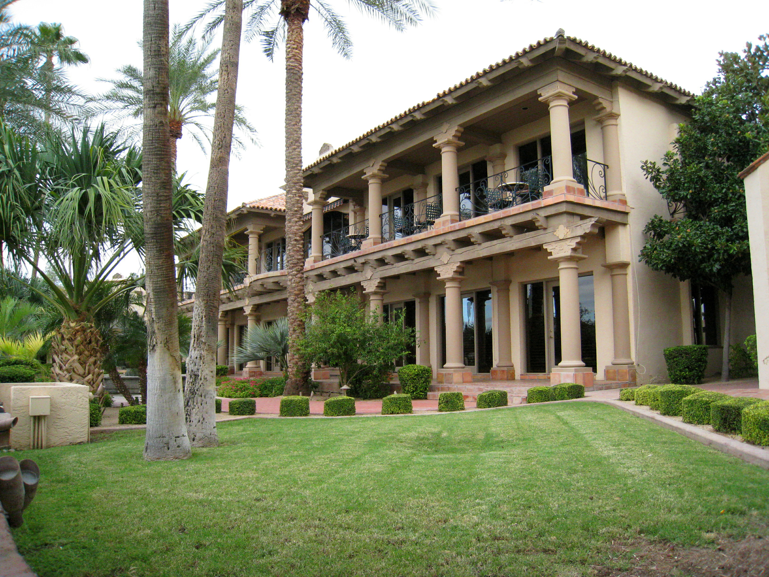 I just love the architecture of this office building in McCormick Ranch. Sometimes I will see someone upstairs on the balcony enjoying the view.